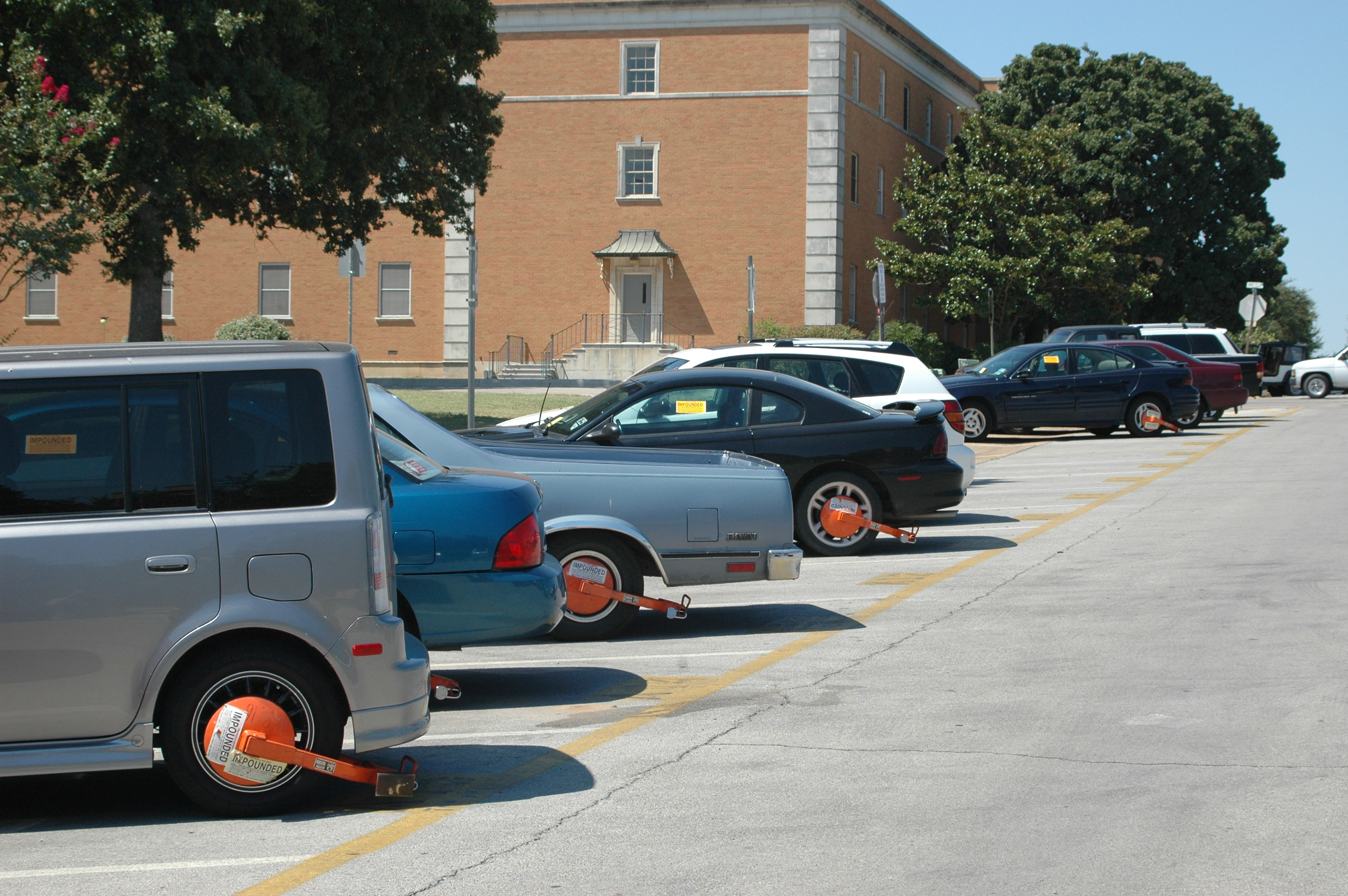 It looks like the parking cops had fun this morning. Taken on my way into work at UNT.